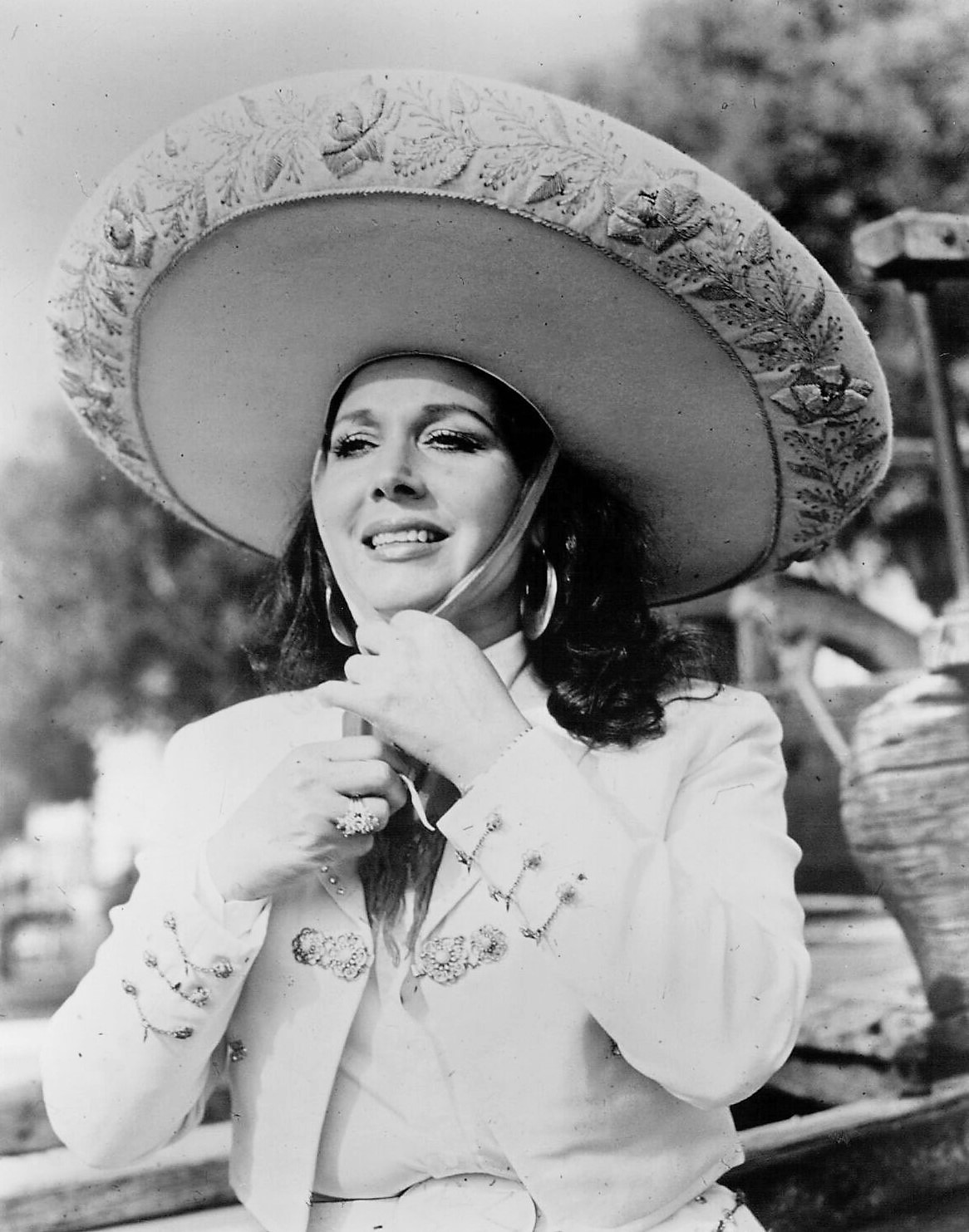 A 1977 publicity photograph of Mexican singer and actress Flor Silvestre.